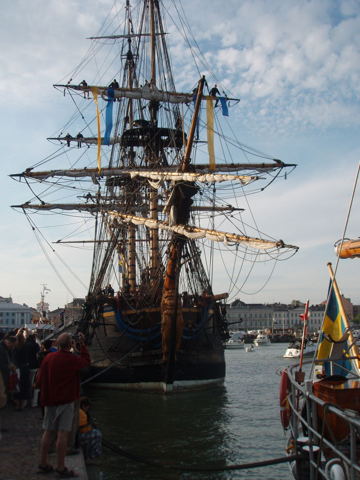 The Götheborg moored in Southern harbour in Helsinki June 2008